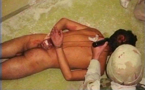 Abu Ghraib 31. 3:34 a.m., Dec. 1, 2003. Soldier appears to have a flashlight point at an injury on the detainee. SOLDIER(S): Unknown U.S. All caption information is taken directly from CID materials. Army/Criminal Investigation Command (CID). Seized by the U.S. Government.